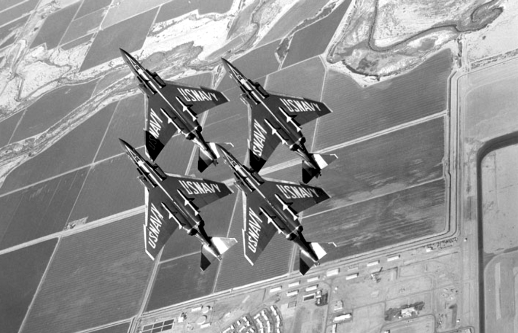 McDonnell Douglas F-4J Phantom IIs of the U.S. Navy Blue Angels aerobatics team in 1969.